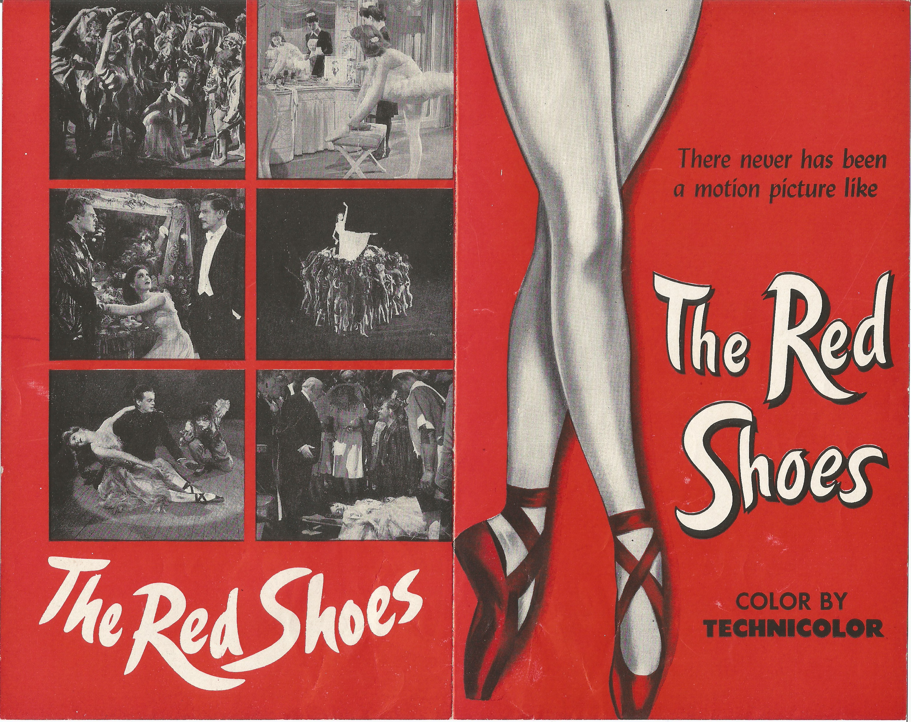 Original flyer for the film "The Red Shoes." From The Red Shoes (1948) Collection at Ailina Dance Archives.